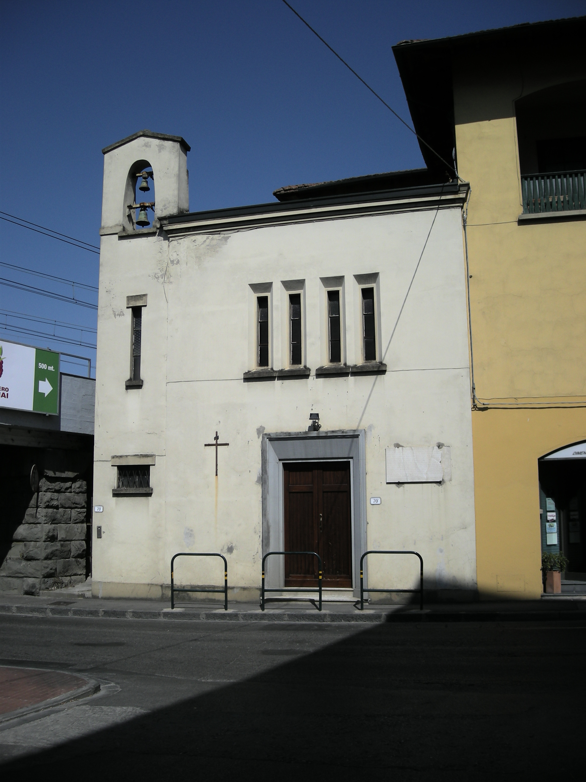 Church in Signa (Florence) - Italy